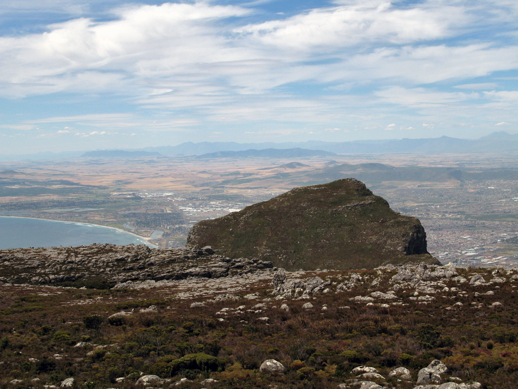 View on the Devil's Peak